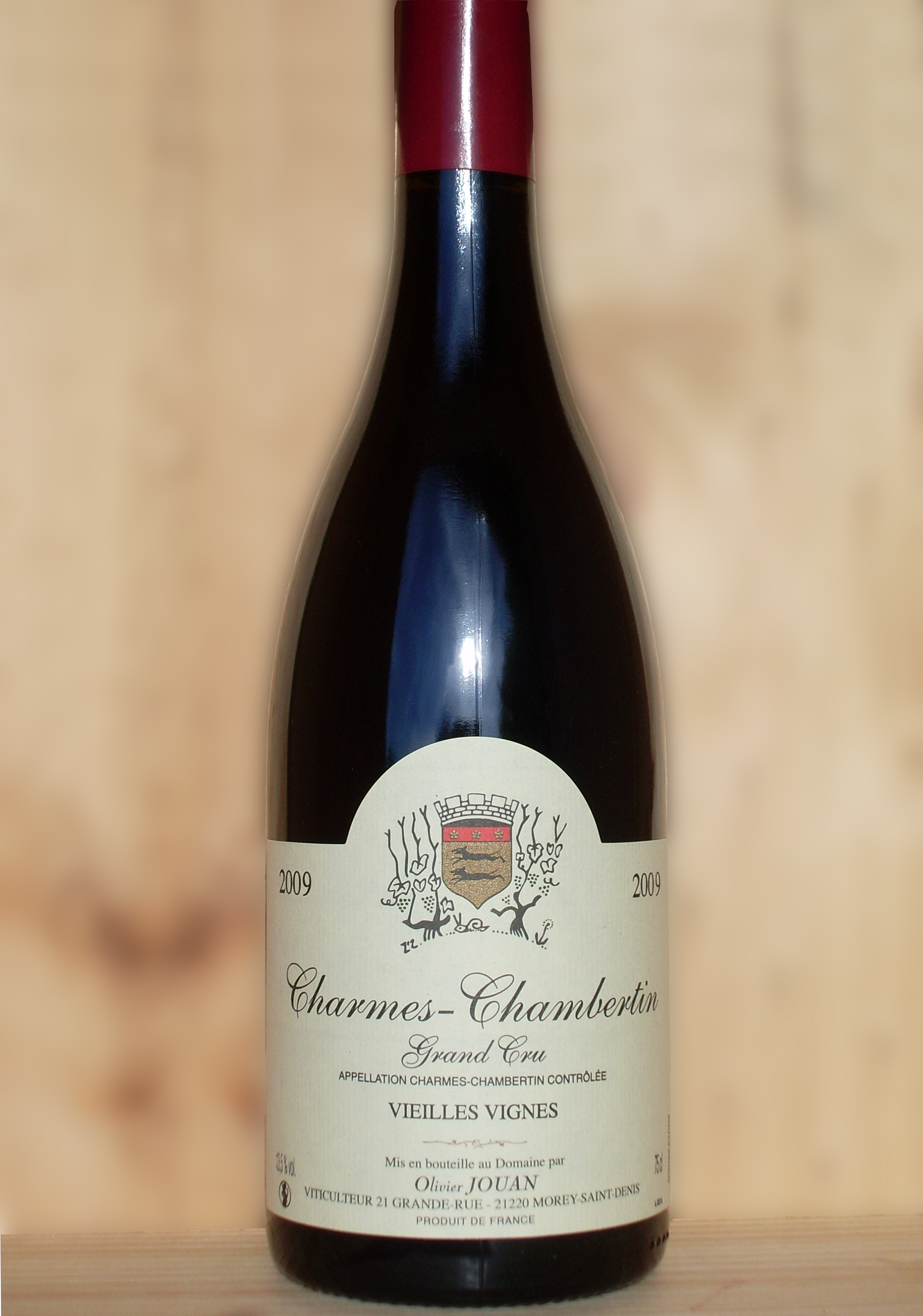 Charmes Chambertin Grand Cru 2006 Domaine Jouan Olivier